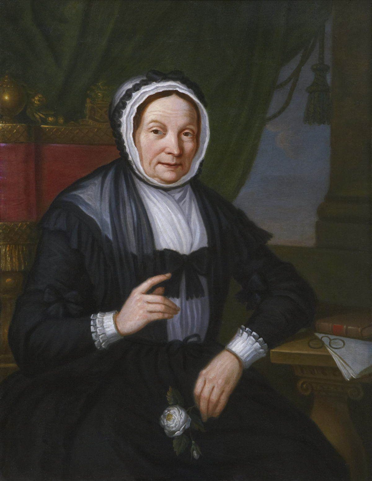 David Allan; Lady Catherine Bruce of Clackmannan (1696-1791); Clackmannanshire Council; guess date as 1790